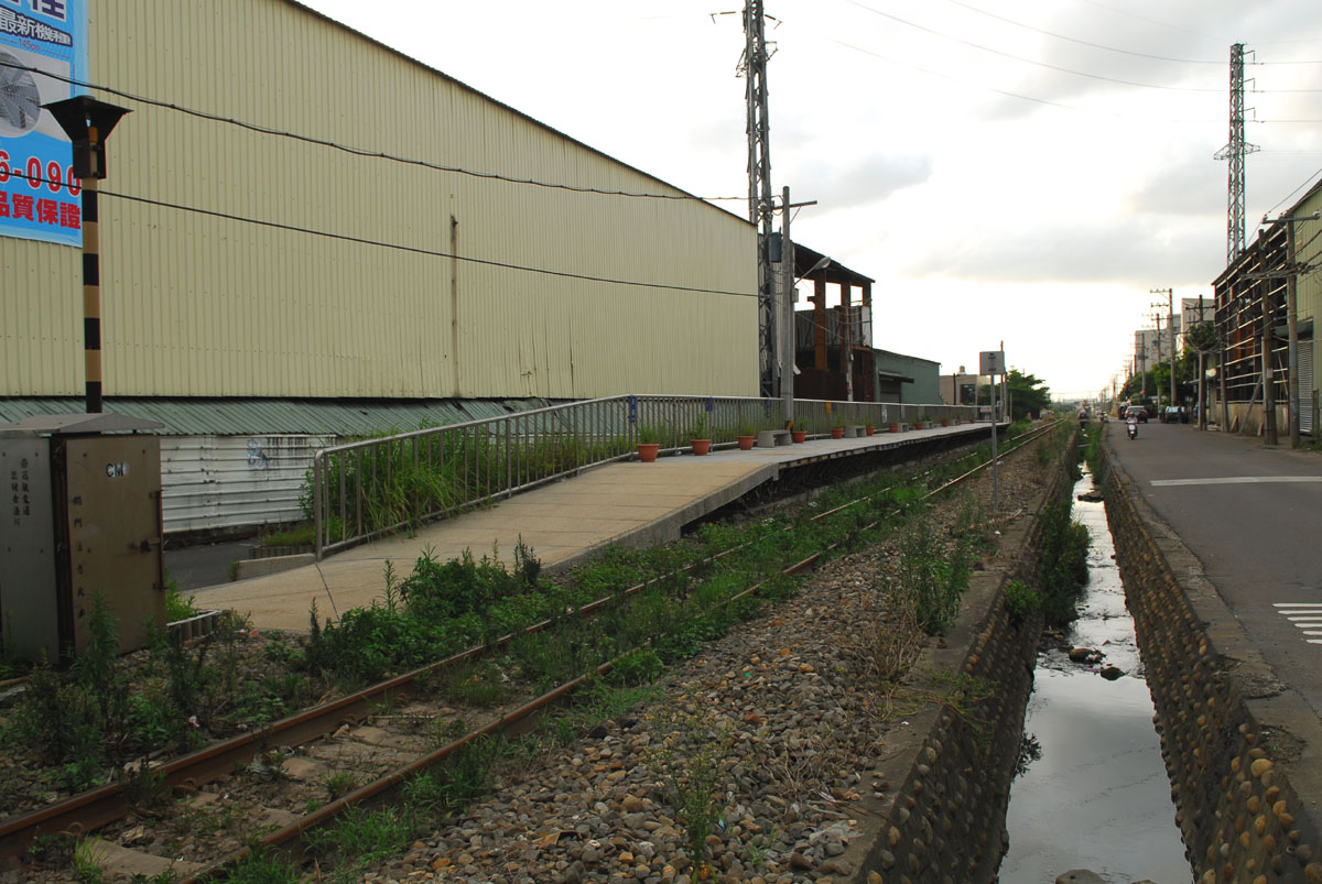 Changshing Station is a small station on Linkou Line. The station is located in an industrial area.